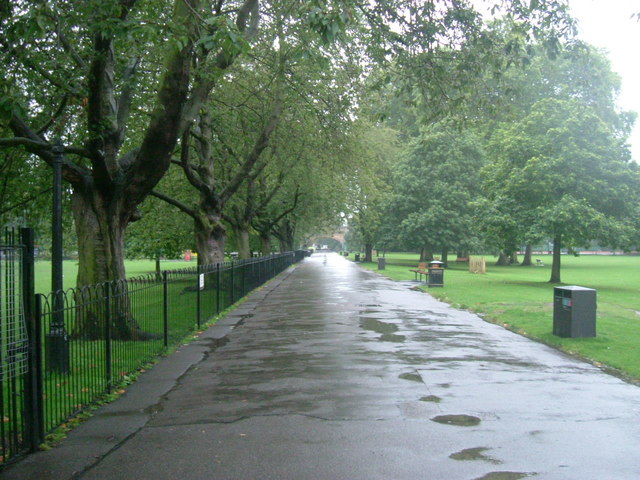 Ravenscourt Park, Hammersmith, W6 Taken on a wet Sunday morning - Ravenscourt Park.